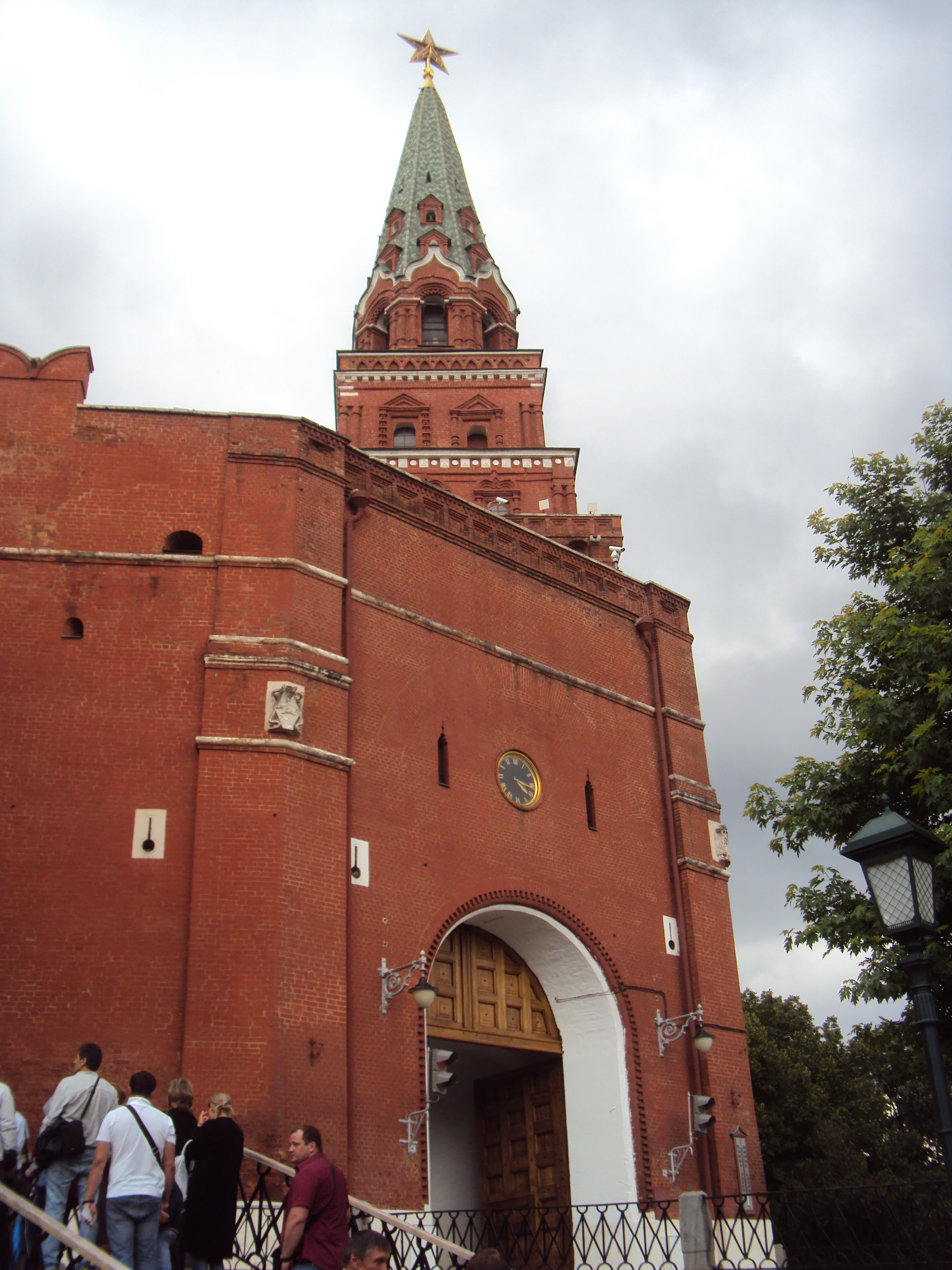 Borovitskaya tower